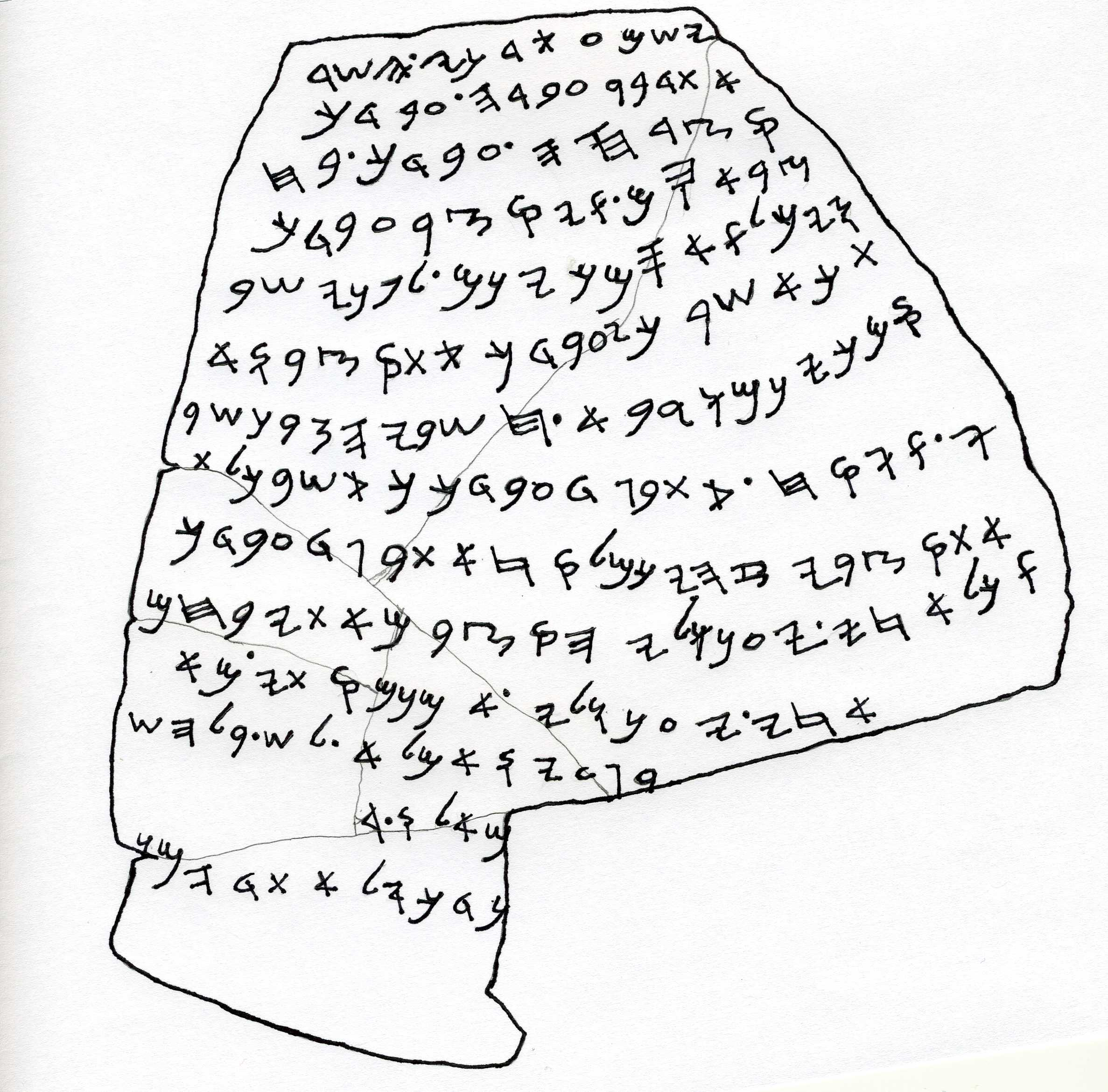 Black & White tracing of the Paleo-Hebrew script from the Mesad Hashavyahu ostracon replica.